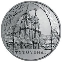 50 litas Coin dedicated to the Tytuvenai Architectural Ensemble (from the series "Historical and Architectural Monuments of Lithuania") Silver Ag 925 Quality proof Diameter 38.61 mm Weight 28.28 g The words on the edge of the coin: ISTORIJOS IR ARCHITEKTUROS PAMINKLAI (HISTORICAL AND ARCHITECTURAL MONUMENTS) Designed by Rytas Jonas Belevicius Mintage 10,000 pcs Issue 2009 The coin was minted at the UAB Lithuanian Mint.